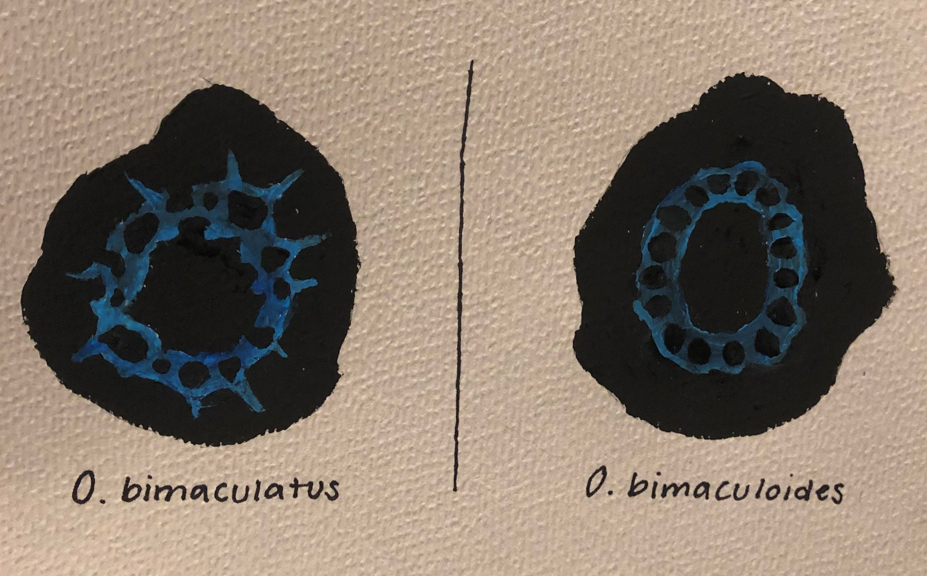 Difference in chain-linked pattern of ocelli in O. bimaculatus and O. bimaculoides